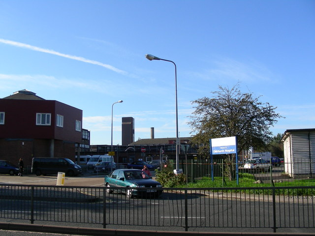 Oldchurch Hospital, Romford Oldchurch Hospital is due for closure in the next month and is likely to be demolished soon after. Many buildings date from the early part of the 20th century and this and other photographs will provide a record of this long established hospital. See26362 for the new hospital